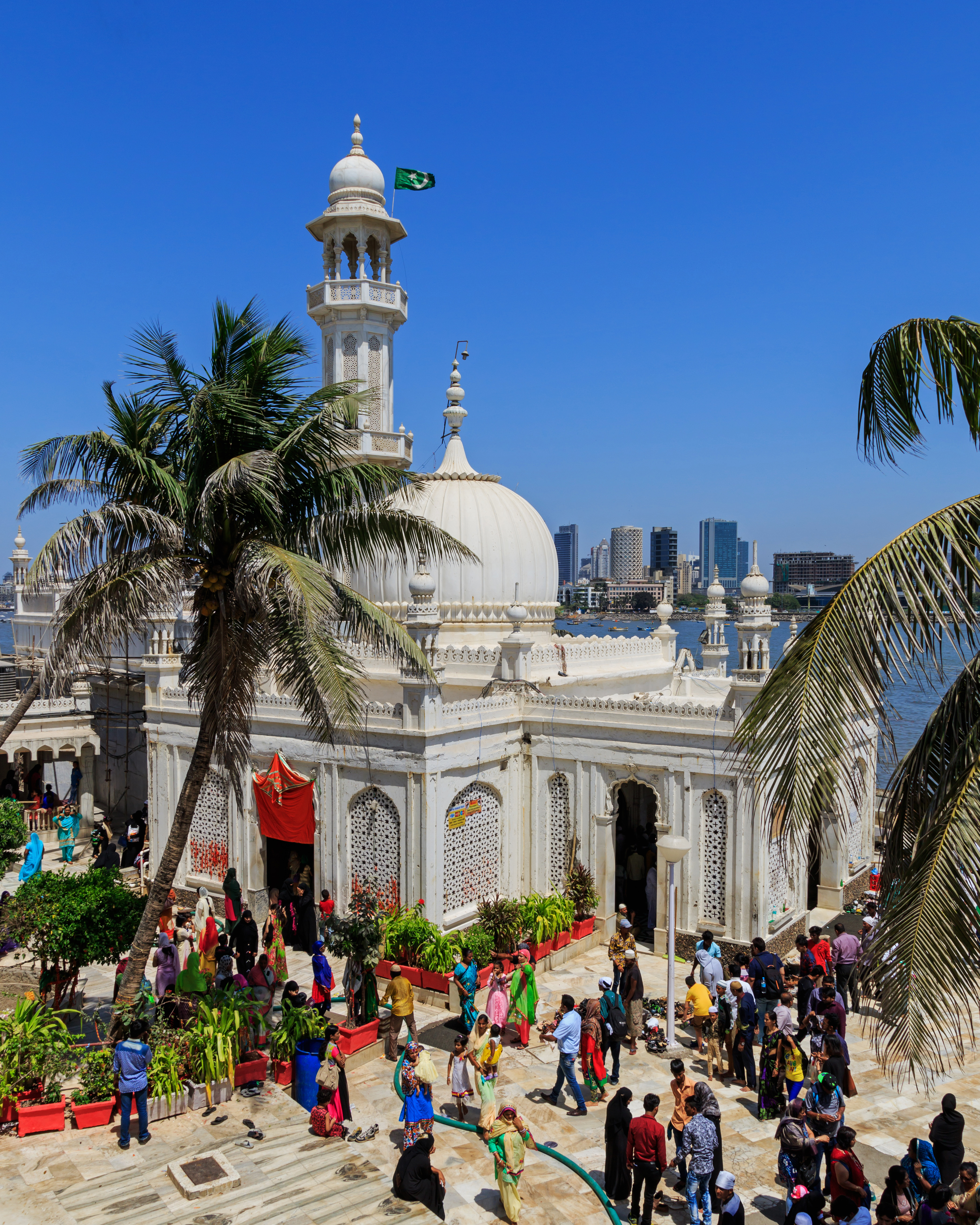 Haji Ali Dargah Mosque in Mumbai, India